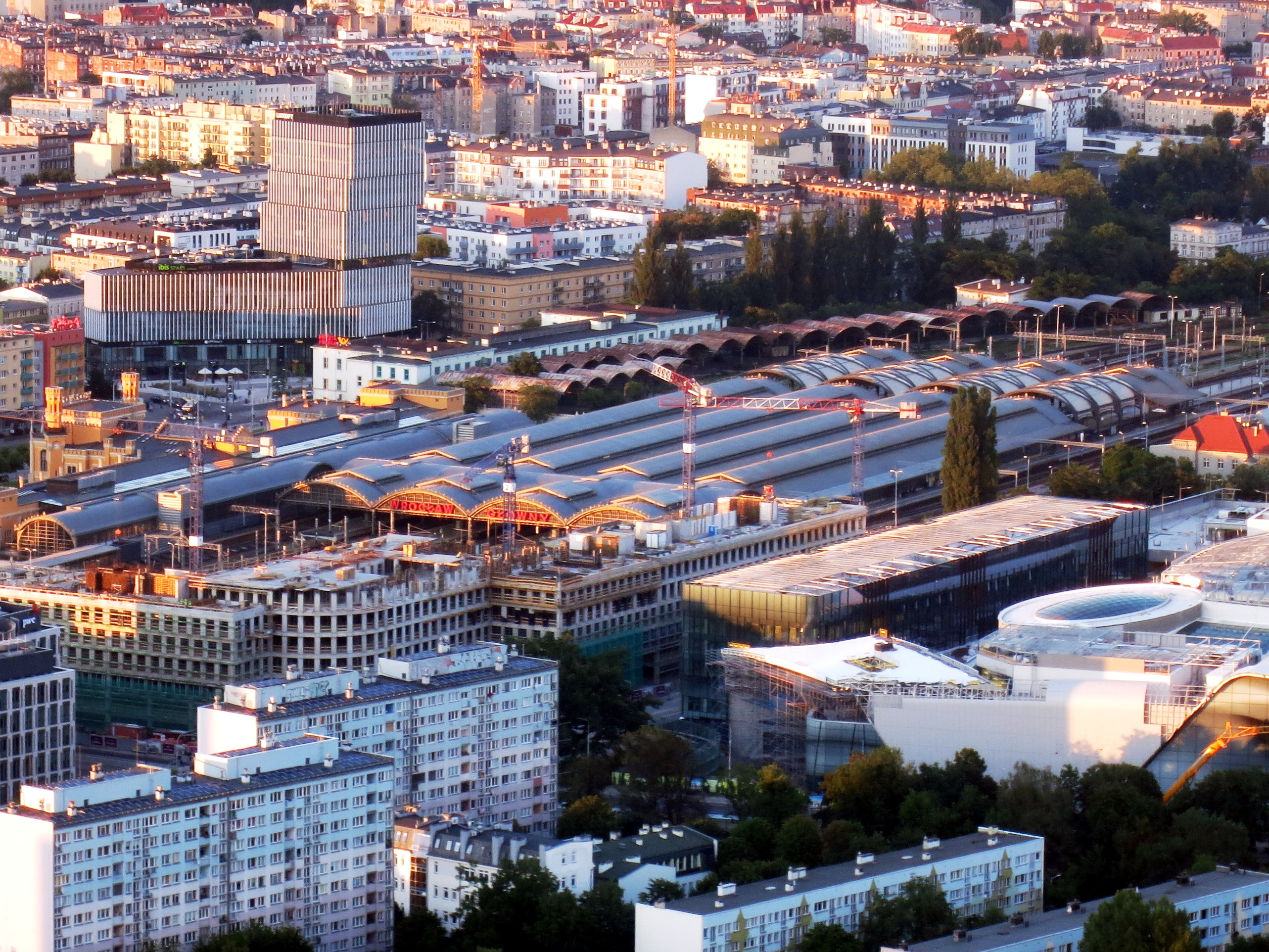 Wroclaw Central Station seen from Viewpoint of Skytower Wroclaw